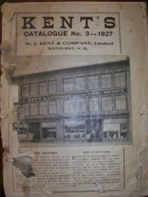 Cover of the 1927 catalogue of W.J. Kent & Company department store in Bathurst, New Brunswick. Created by J. Harold Kent (1889-1928) who was the son of W.J. Kent.